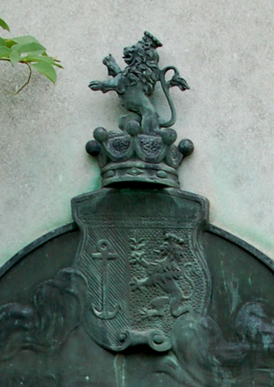 The coat of arms of the Rosthorn family, found at the grave plate of Oskar Rosthorn in Waldegg, Lower Austria.